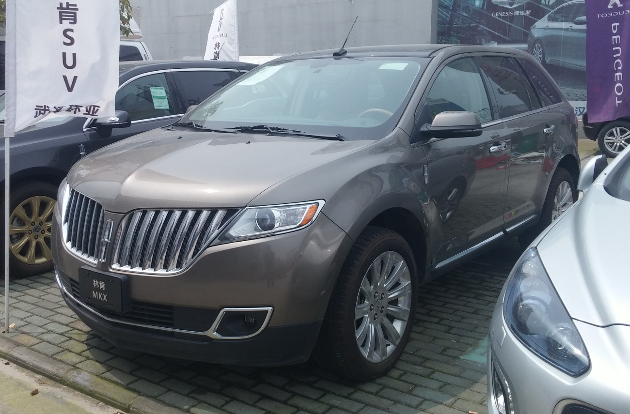 Lincoln MKX facelift photographed in Wuhan, Hubei province, China.